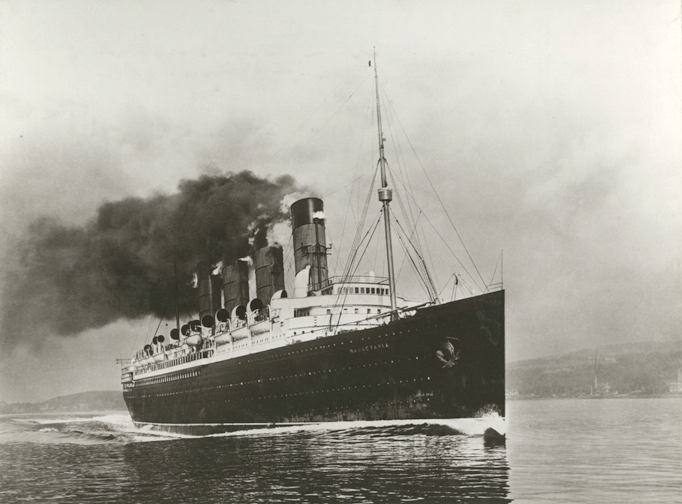 Here's "Mauretania" at full speed, built by the shipbuilders Swan Hunter and Wigham Richardson Ltd, at the Wallsend shipyard. RMS MAURETANIA was one of the most famous ships ever built on Tyneside. Ref number: TWAS:DS.SWH/4/PH/7/6/60 (Copyright) We're happy for you to share this digital image within the spirit of The Commons. Please cite 'Tyne & Wear Archives & Museums' when reusing. Certain restrictions on high quality reproductions and commercial use of the original physical version apply though; if you're unsure please . To purchase a hi-res copy please quoting the title and reference number.